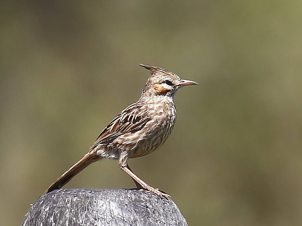 Lark-like Brushrunner; Capivara, Santa Fe, Argentina